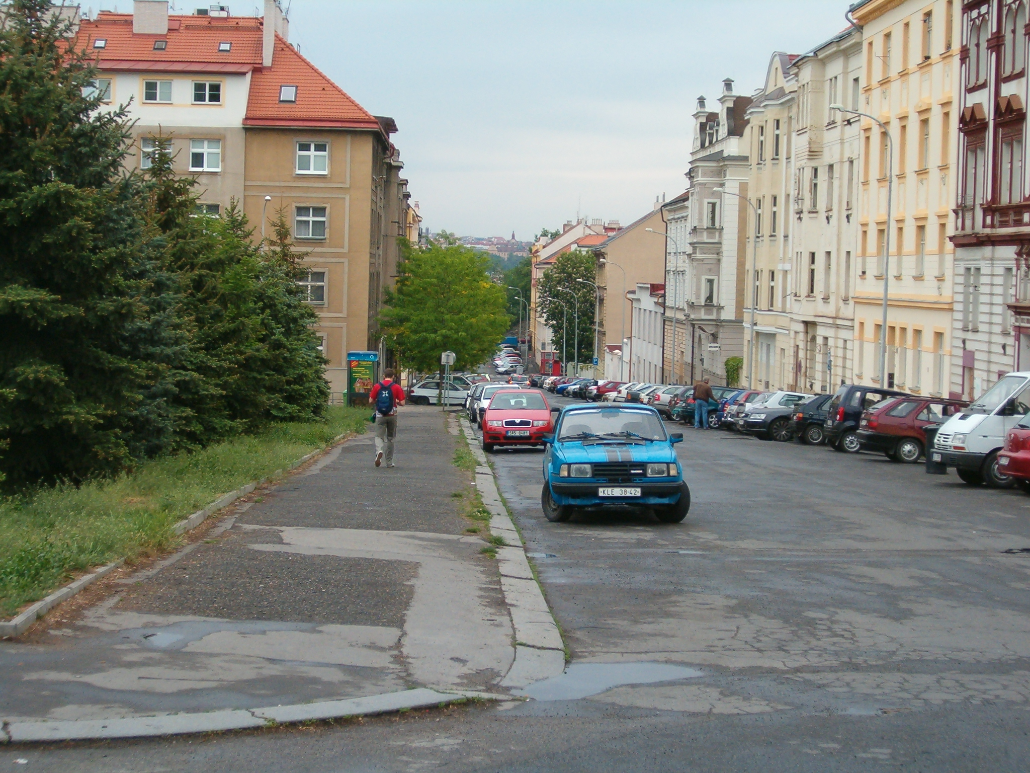 U Nikolajky street in Prague